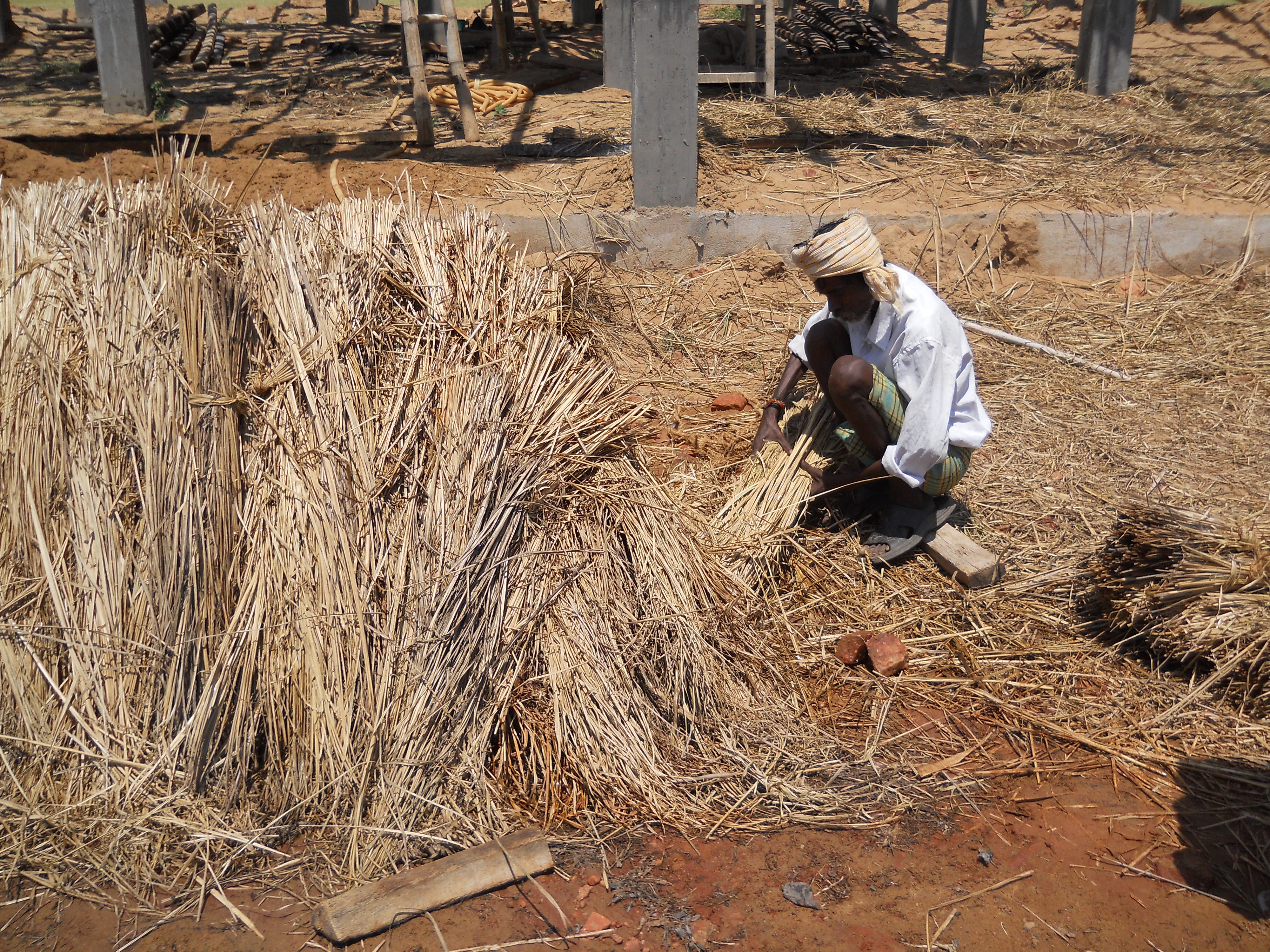 Thatcher